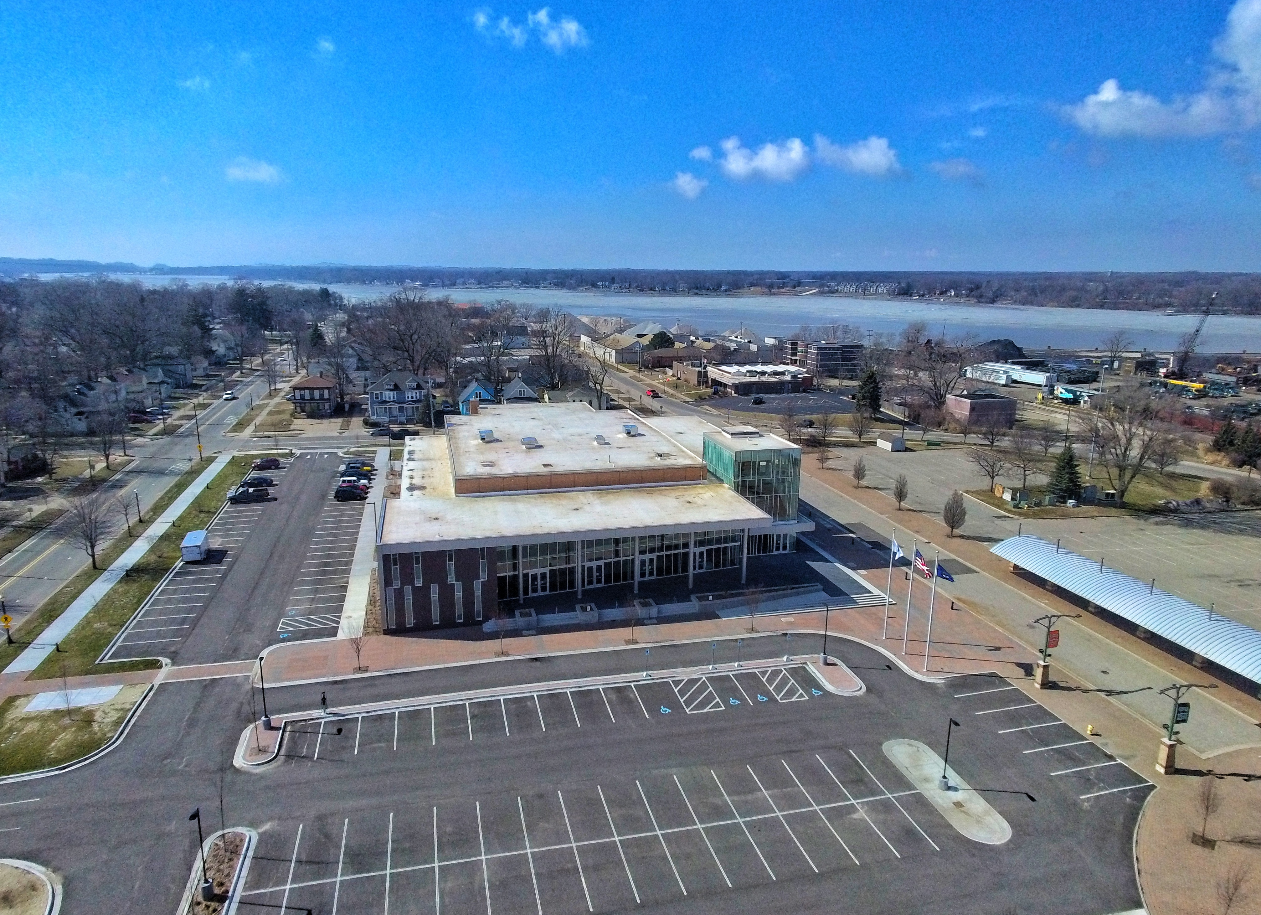 Newly renovated Holland Civic Center seen from above.